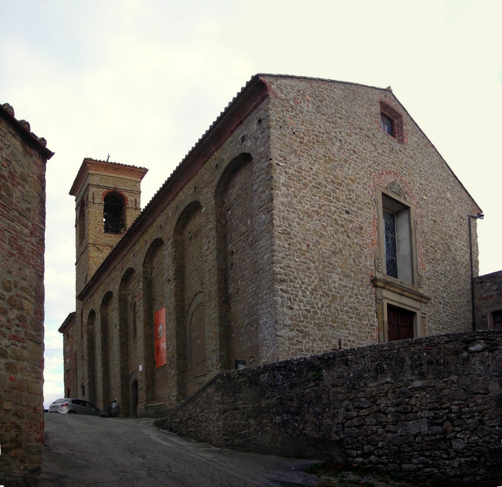 Church of Trinità in San Francesco, Preggio, Umbertide, Perugia, Umbria, Italy